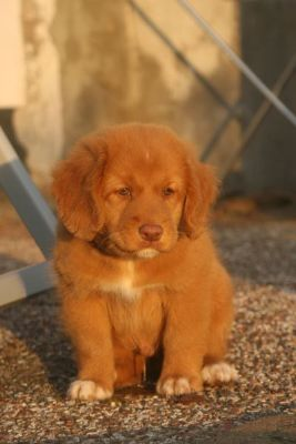 Nova Scotia Duck Tolling Retriever - Rhineferry's Namid Indian Dancer